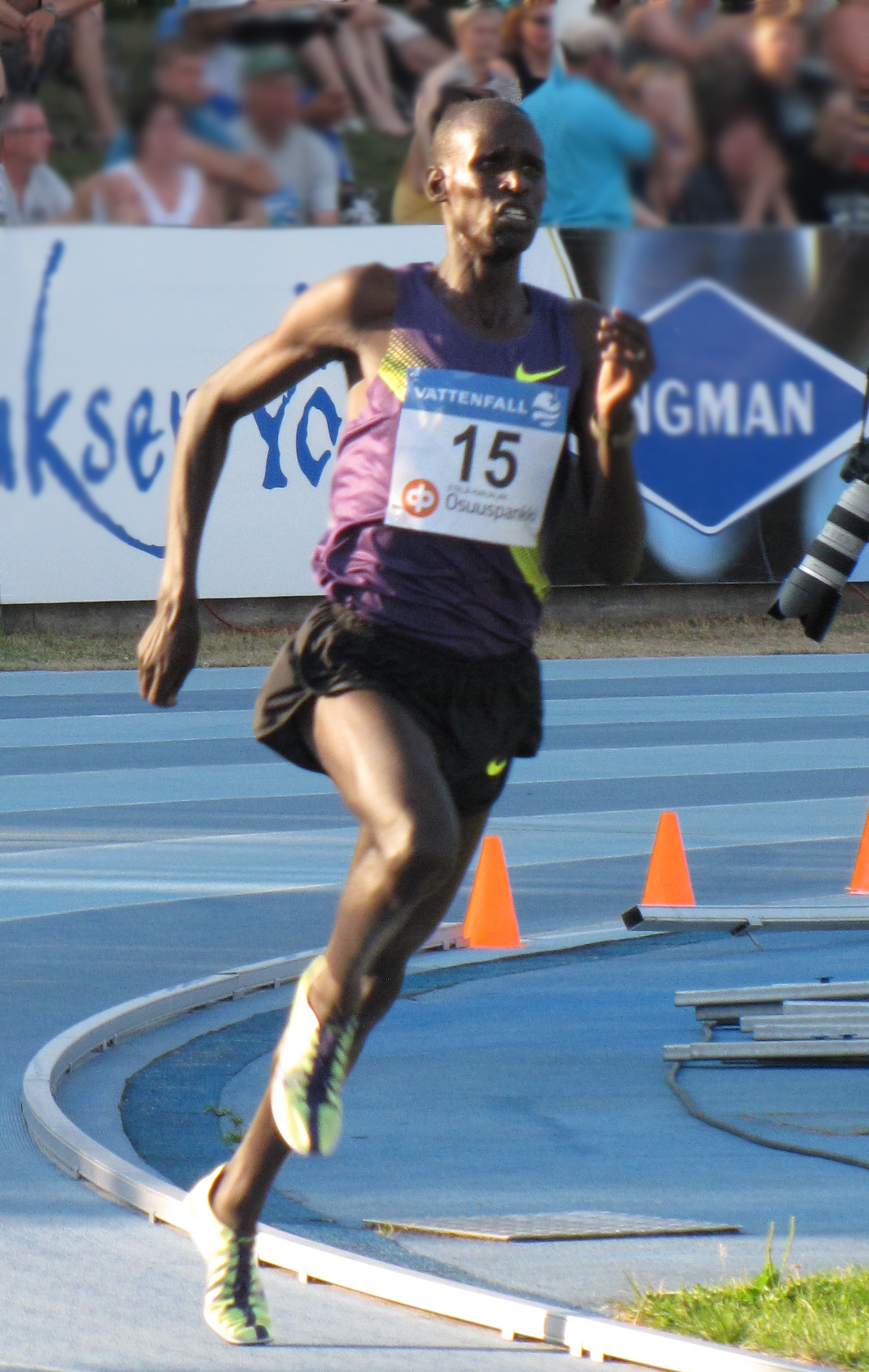 Josphat Kiprono Menjo running at Lappeenranta Games, Finland, 2010.